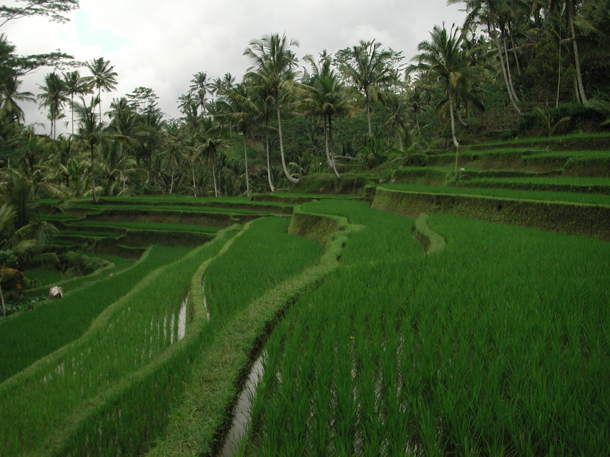 Sawah (Rice field) at entrance to Gunung Kawi temple, Tampaksiring, Bali, Indonesia